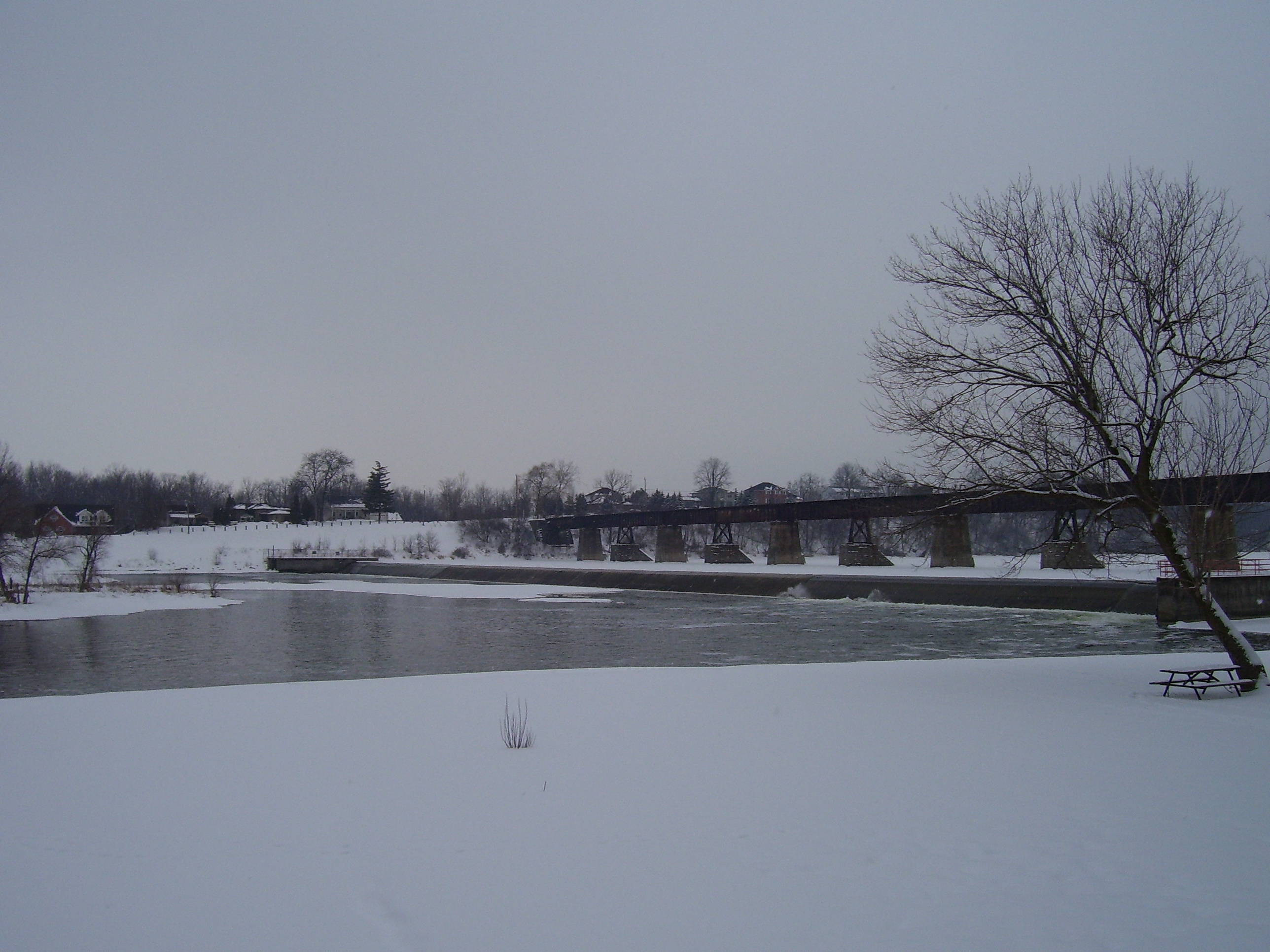 Caledonia Dam over Grand River, Ontario. Took photo on digital camera